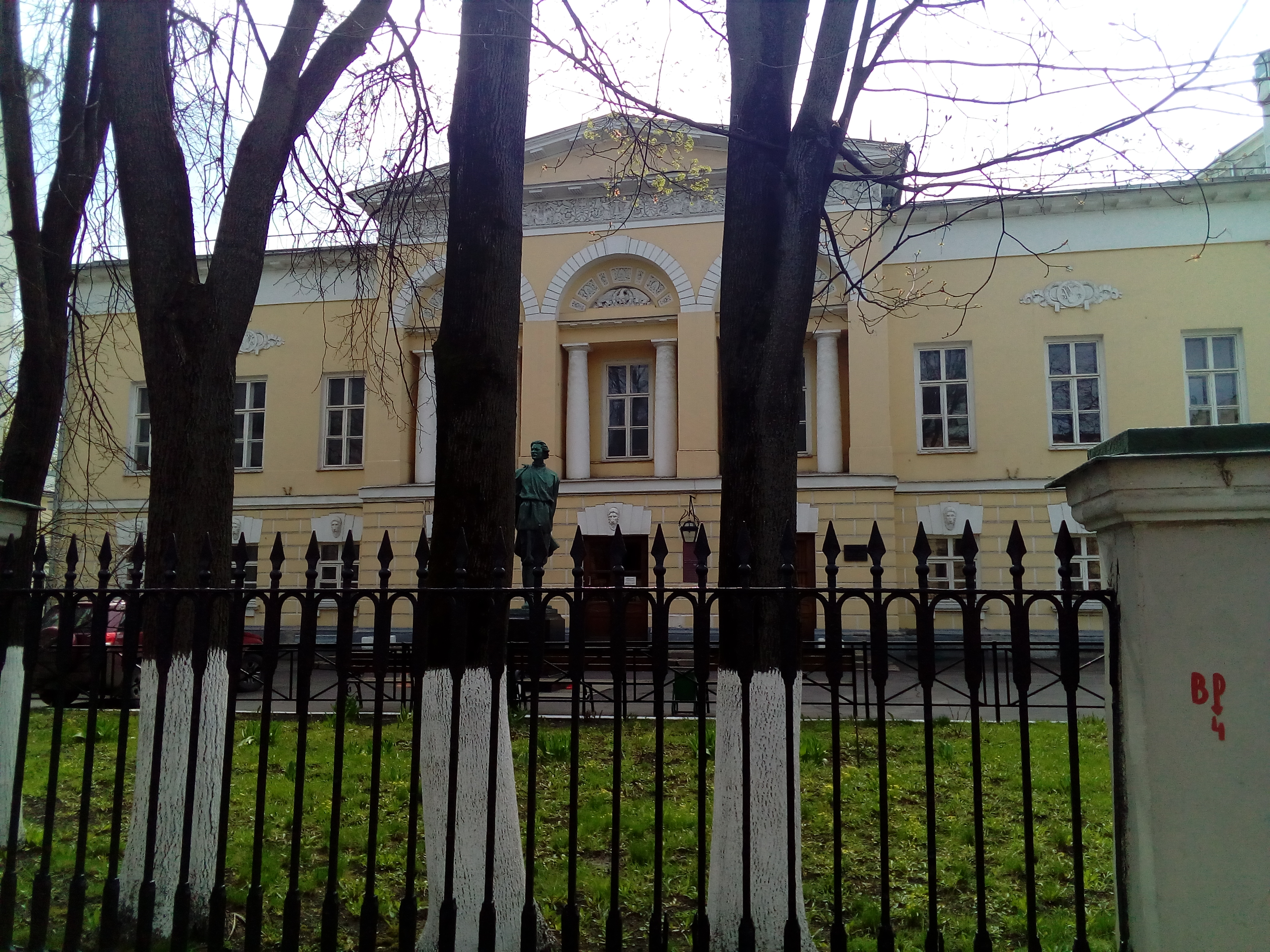 Здание Института мировой литературы имени А.М.Горького. Москва, 30 апреля 2018г.